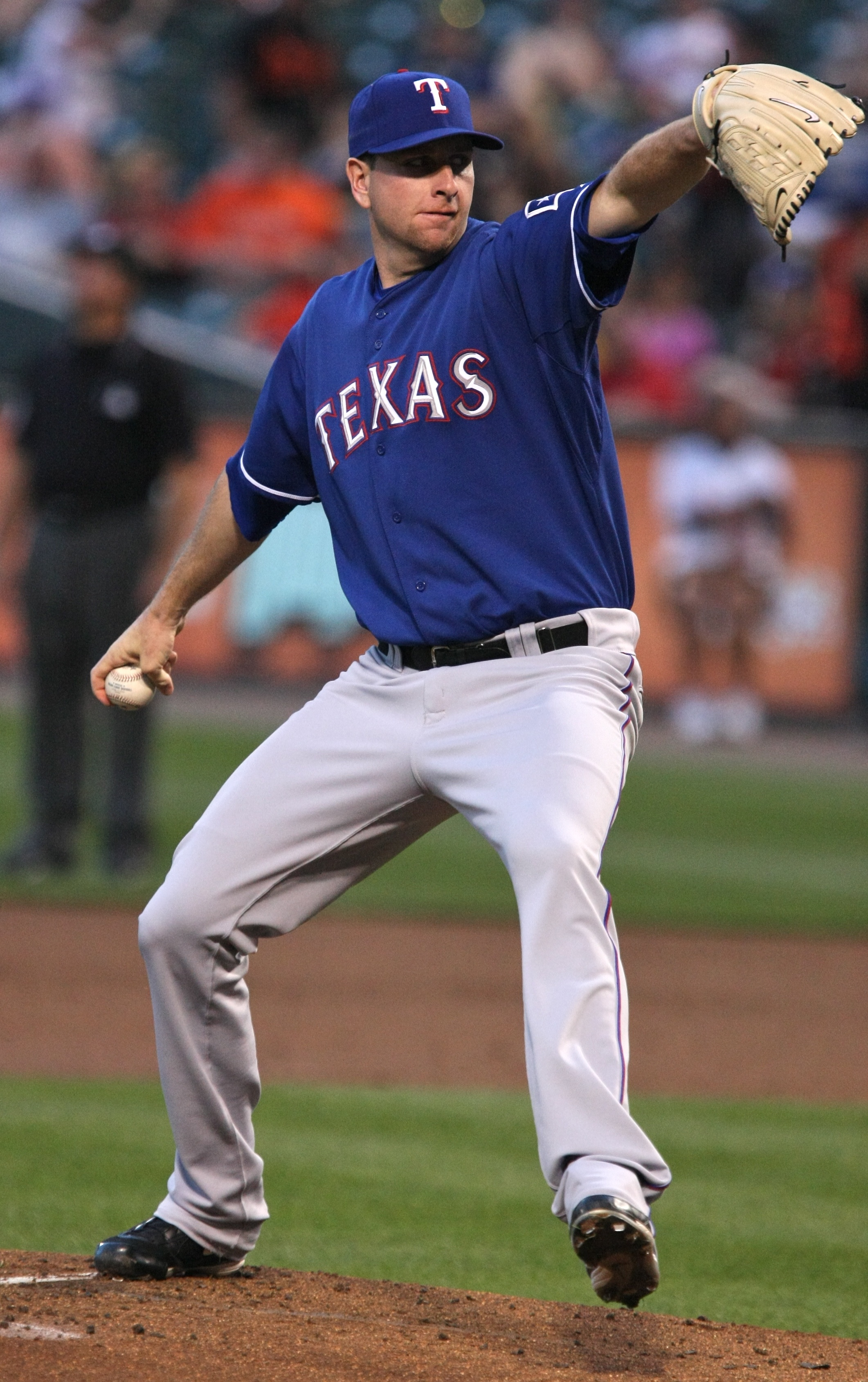 Texas Rangers starting pitcher Scott Feldman throws to a Baltimore Orioles batter during the first inning of a baseball game, Saturday, April 25, 2009, in Baltimore.